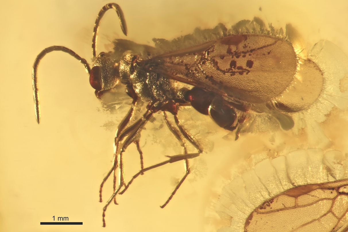 Provile view of a Bradoponera meieri male. British Museum specimen BMNHP18809. Baltic Amber, Middle Eocene; Baltic Region, Europe.